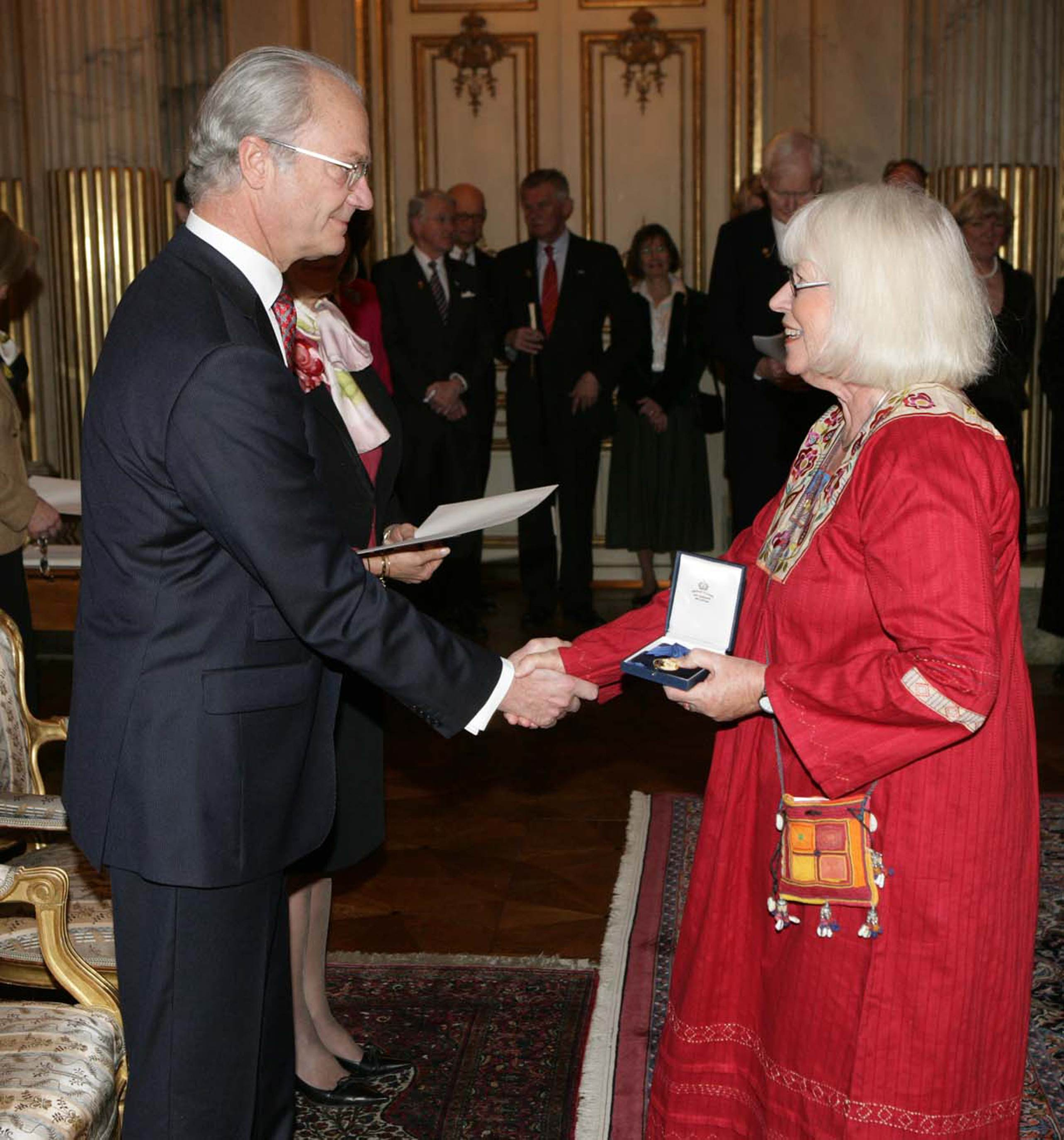 Gudrun Sjödén receives the medal "Litteris et Artibus" from the Swedish king Carl XVI Gustaf.